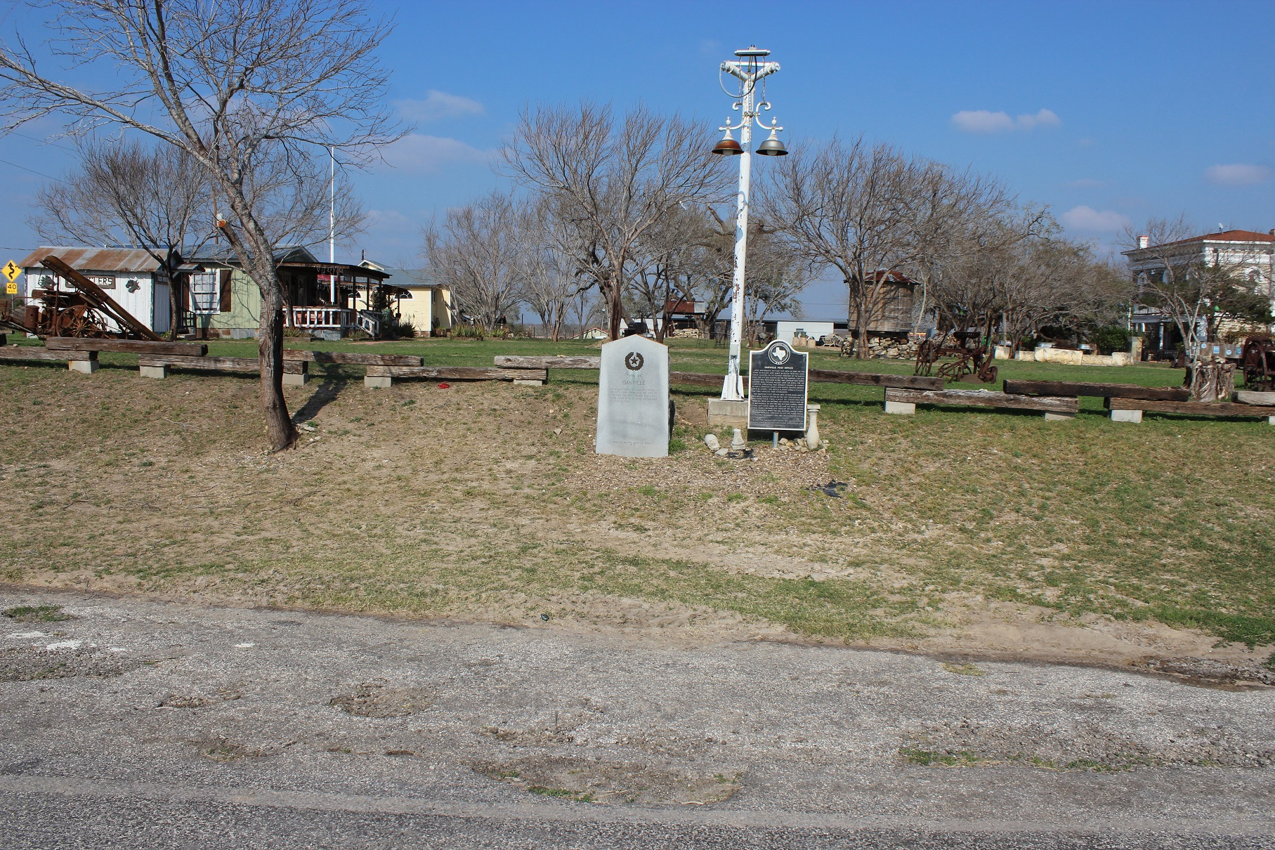 Oakville. So named from its Live Oak trees county seat from 1856 to 1919 of Live Oak County, which was created February 2, and organized August 4, 1856 #3653